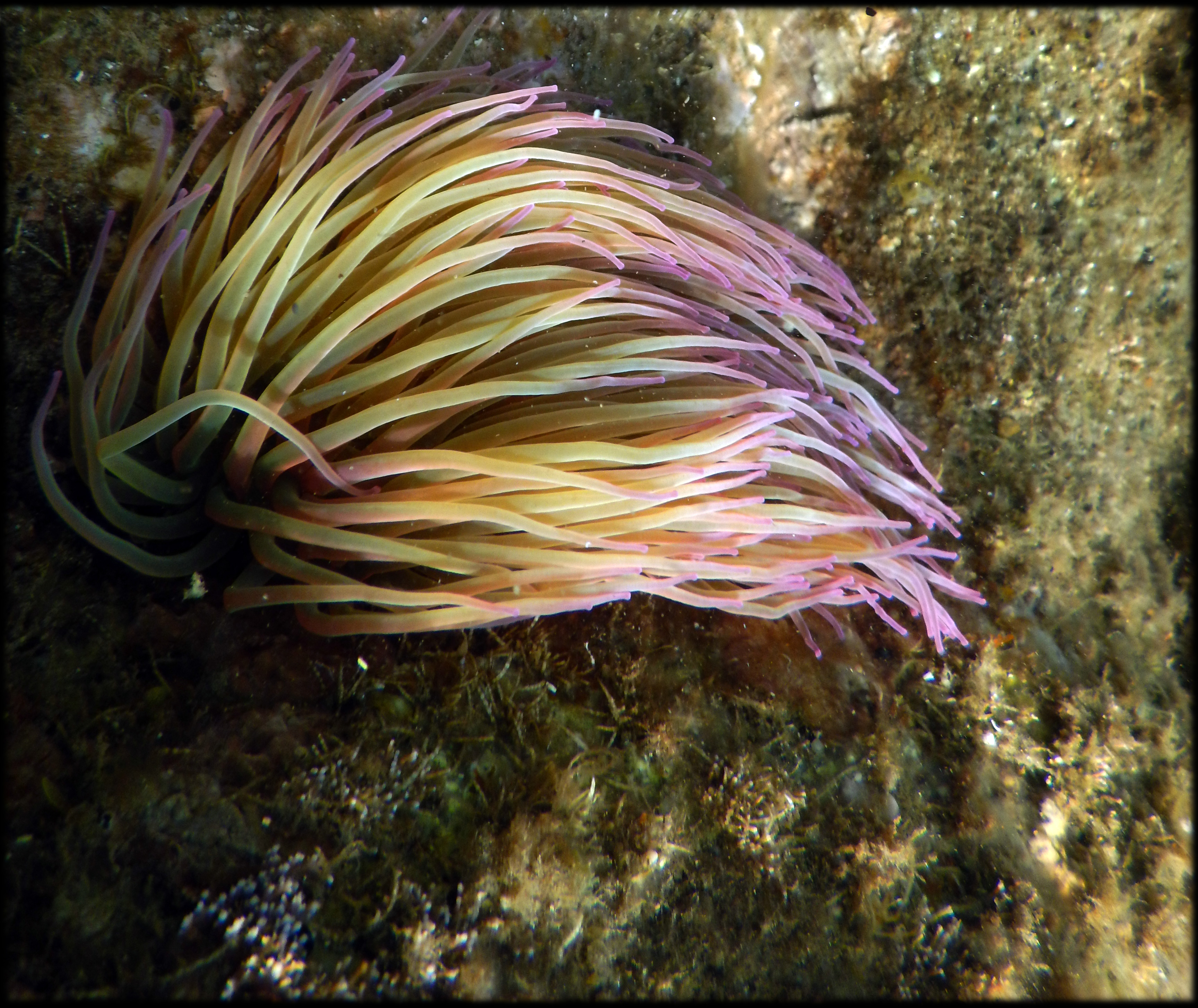 Anemonia viridis Place : le Racou in Argelès-sur-Mer (France), august 2015